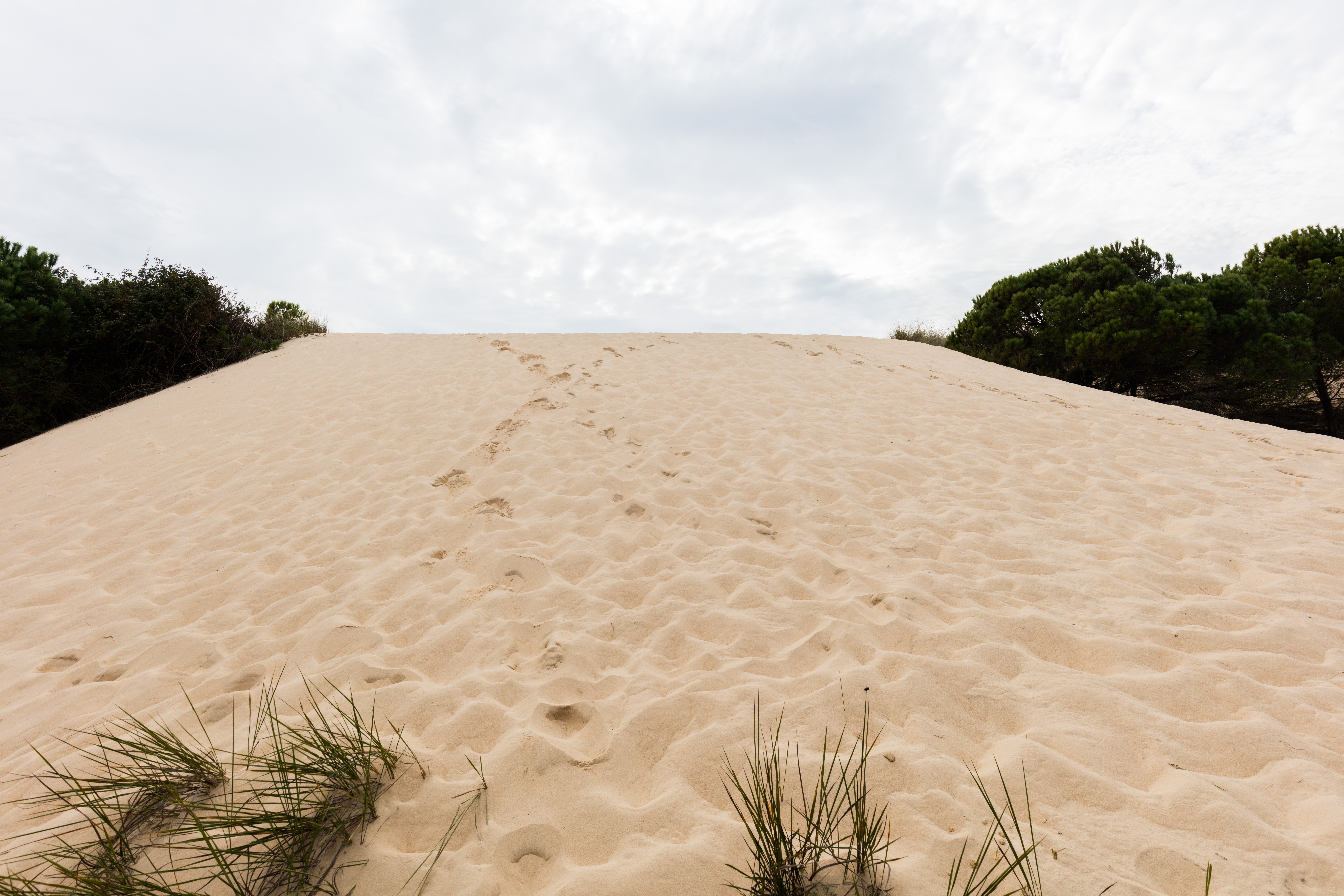 Landscape in Natural Park of Doñana, Huelva, Spain